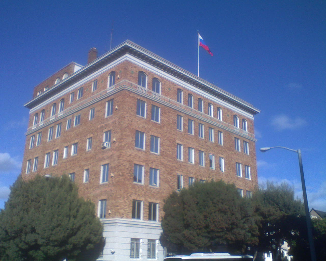 Consulate-General of Russia in San Francisco - 2790 Green Street, Pacific Heights neighborhood, San Francisco, California, United States